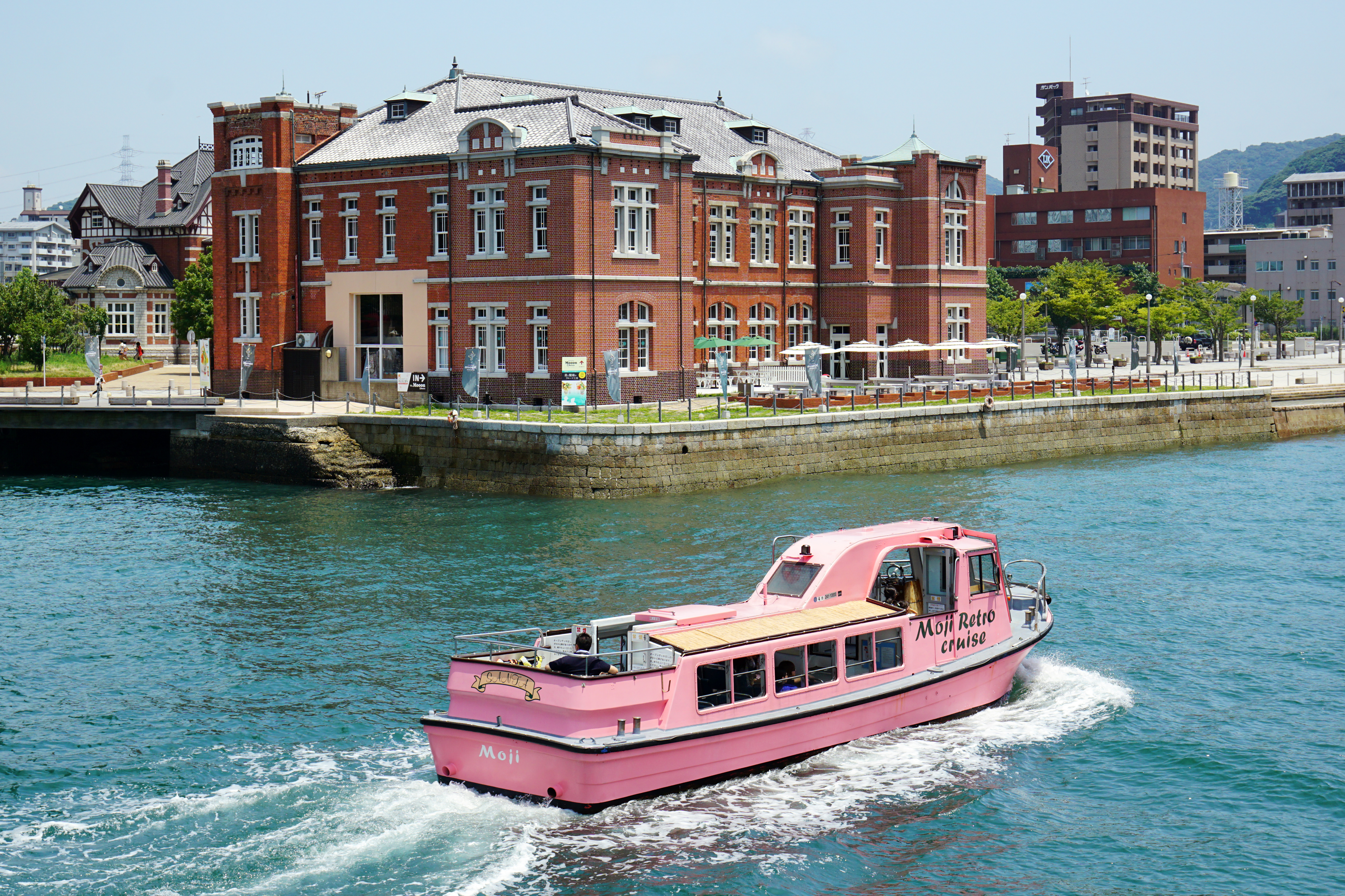 Former Moji Customs in Kitakyushu, Fukuoka prefecture, Japan.